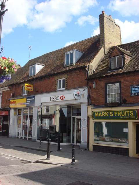 HSBC bank, Rickmansworth